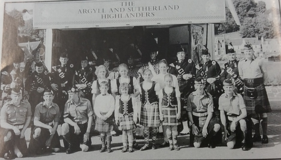 RIT, P and Ds and D Coy with local children who put on a Highland Dancing display in Topermory, Isle of Mull)